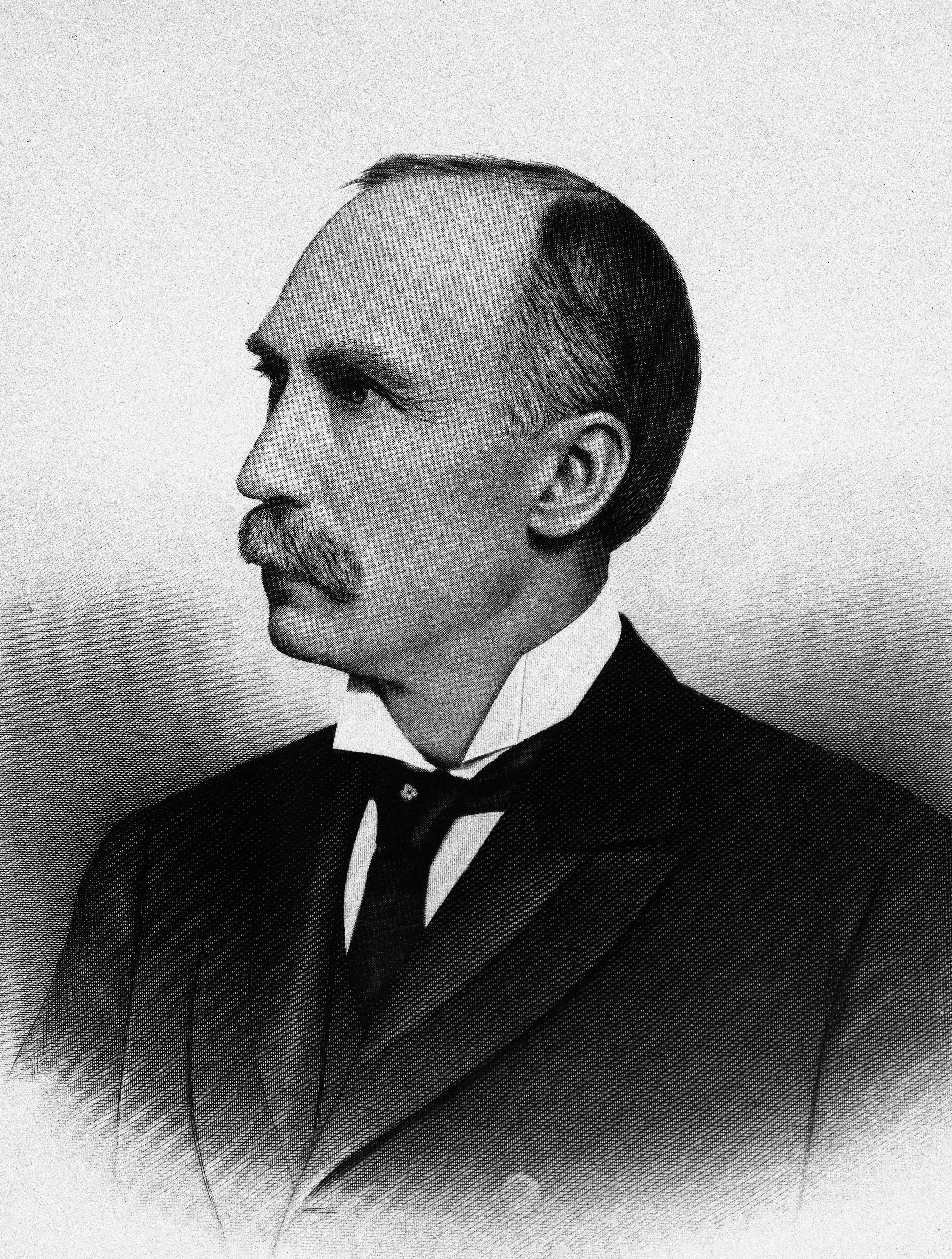 Rufus A. Doughton, NC Lieutenant Governor 1893-1897. From the General Negative Collection, State Archives of North Carolina.